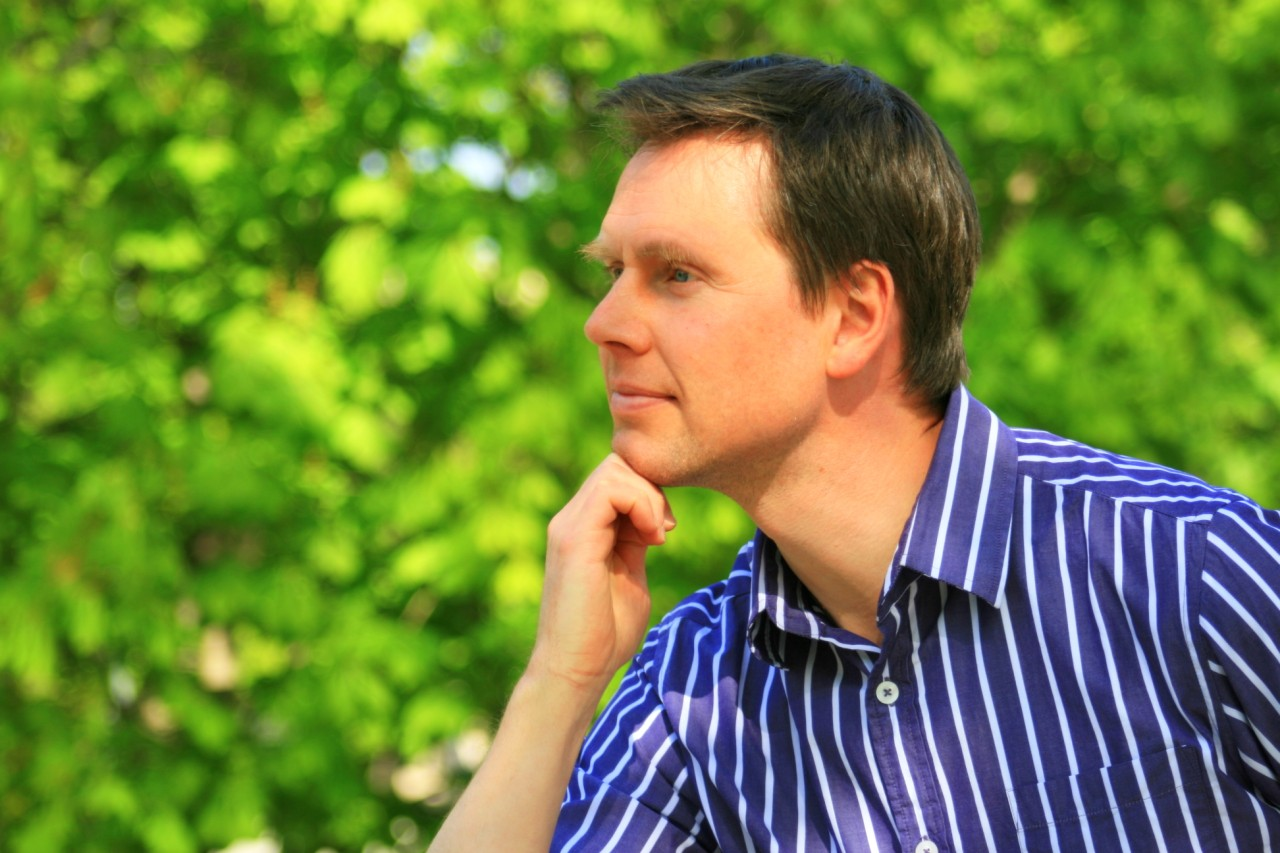 Egyptologist and author